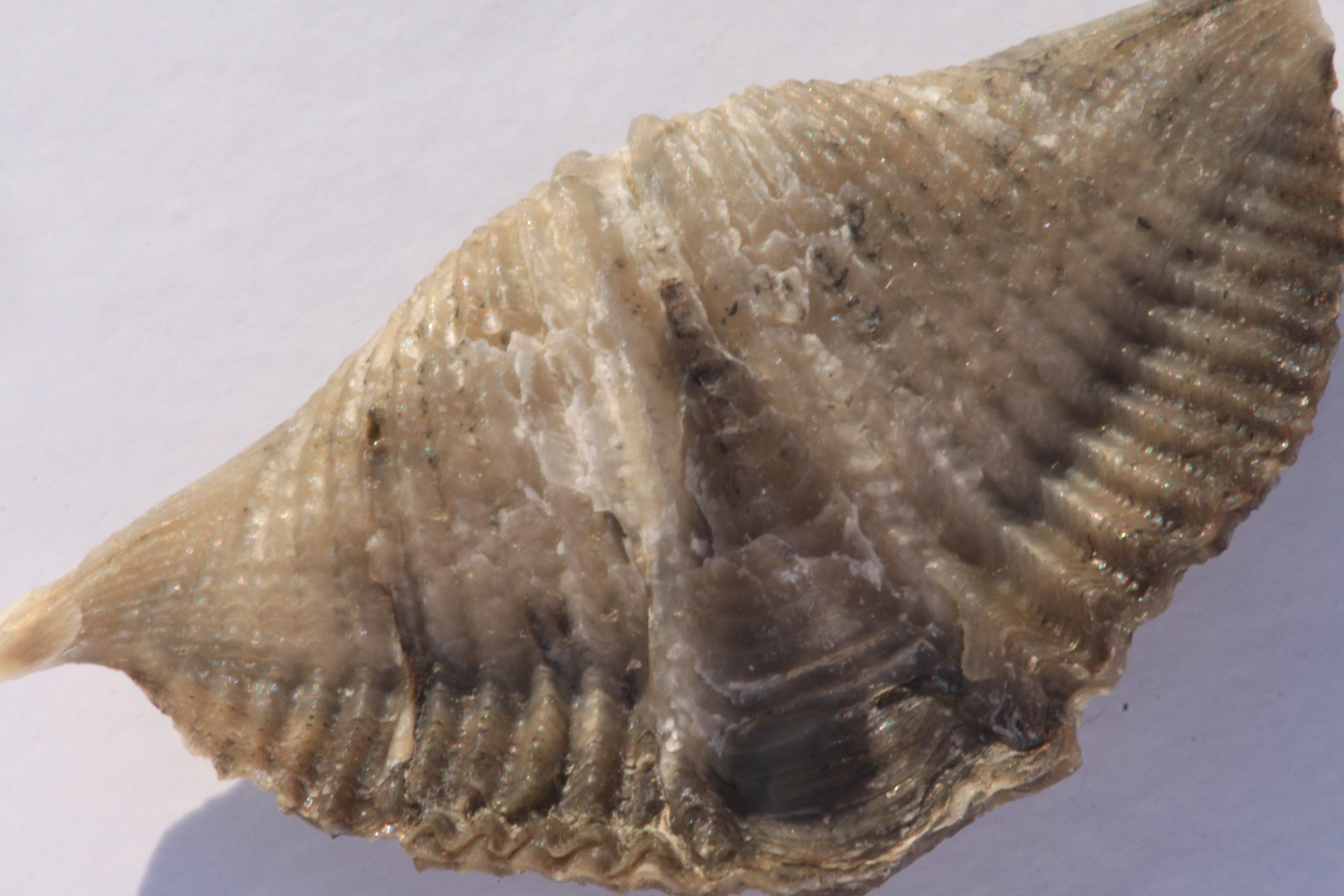 A Spinella subspeciosa, syn. Ferronia subspeciosa lampshell, Order Spiriferida, Family Spinellidae, 20mm along the axis, pedunculate valve, collected in the Aguion Formation, Asturias, Spain, from the late Lower Devonian (Emsian)